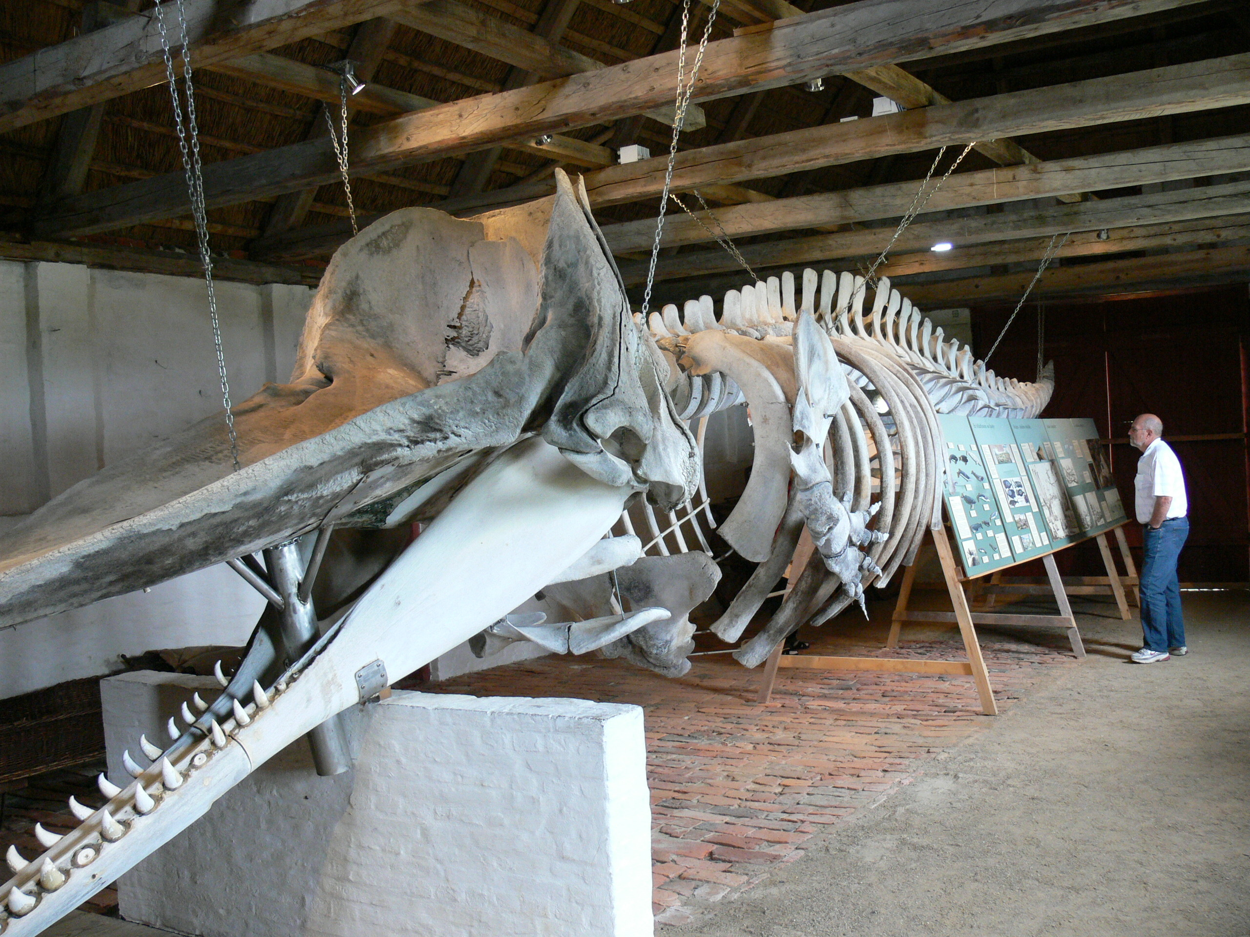 Rømø ( Denmark ). Kommandørgård National Museum - Whale skeleton ( Sperm whale )